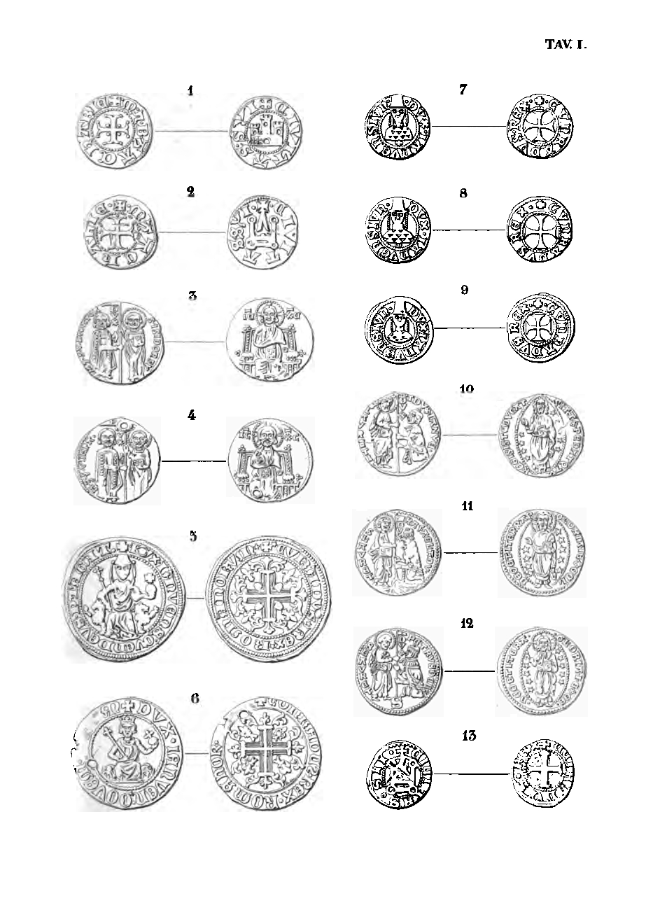 Table I of La zecca di Scio (p. 79)